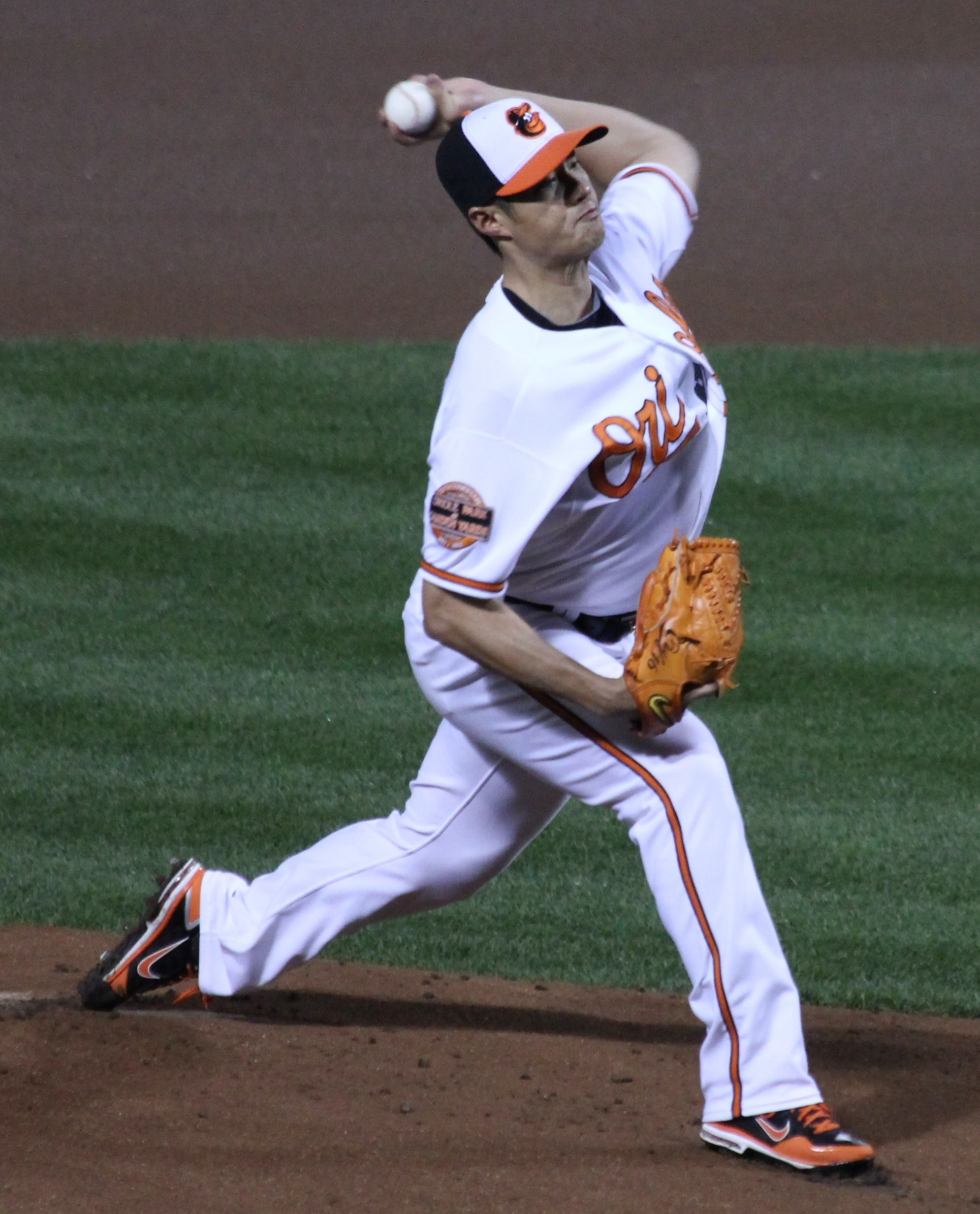 Taken at Orioles-Yankees ALDS Game 2 (10/8/12) Starting pitcher Wei-Yin Chen